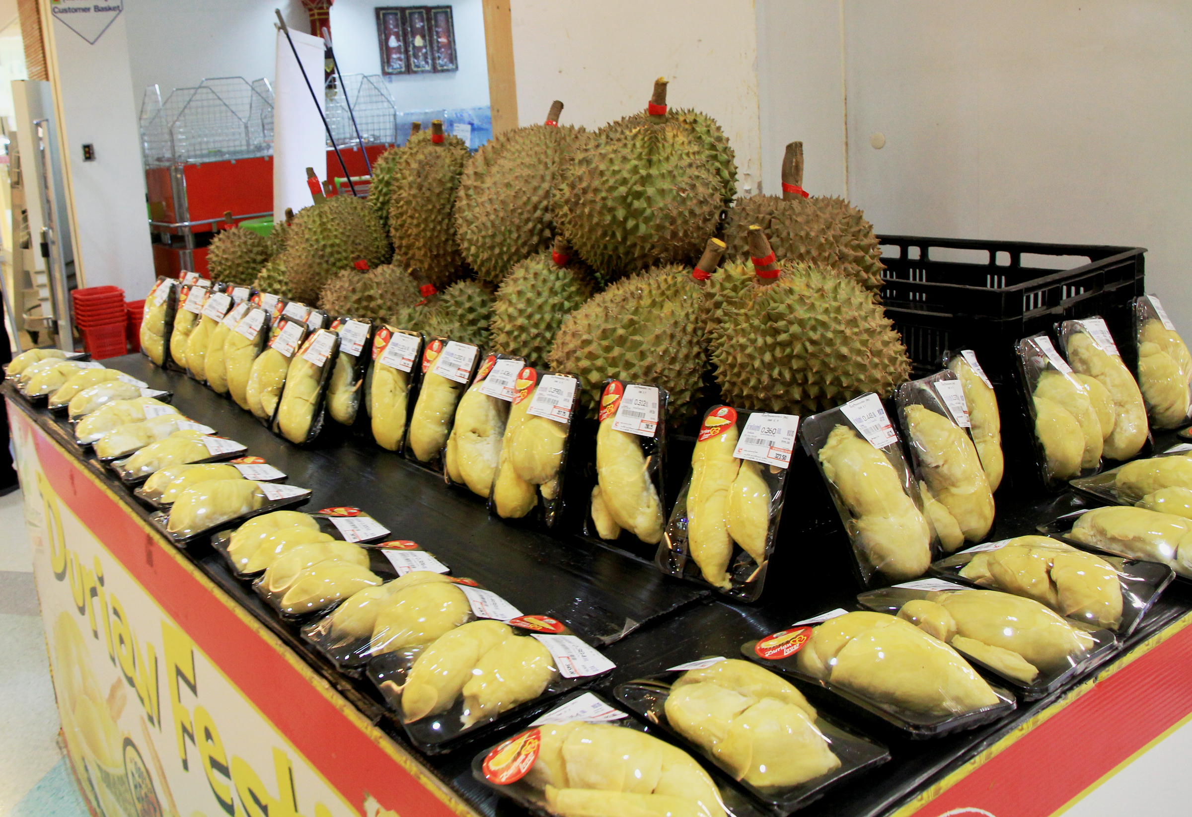 The durian fruit in market in town Patong in Phuket Province, Thailand, March 2018